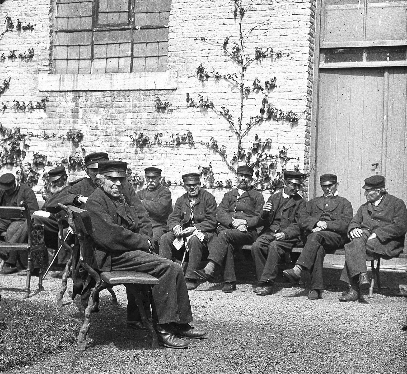 A group of poor men, some retarded, in Calvariënberg Hospital in Maastricht, Netherlands. The photograph was taken around 1895 or 1896 by Dr. Lambert Th. van Kleef, a famous surgeon in his time who was director of Calvariënberg from 1881 until 1904. He was also a dedicated photographer. Collection of RHCL, Maastricht, ref. nr. VKG 060.